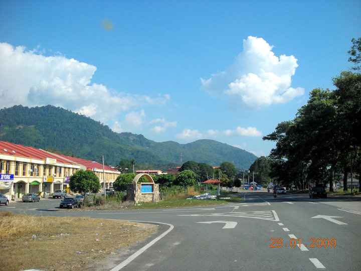 village